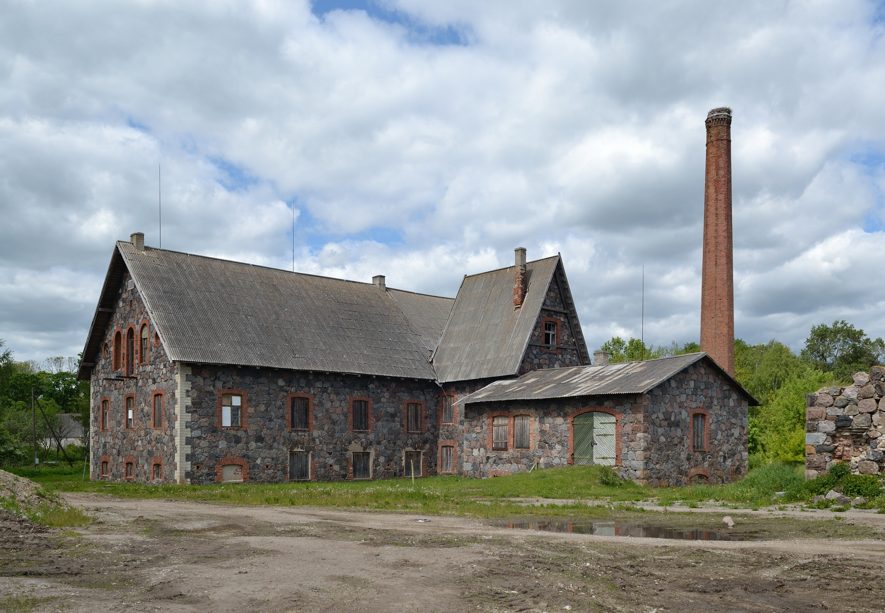 Vaeküla manor distillery